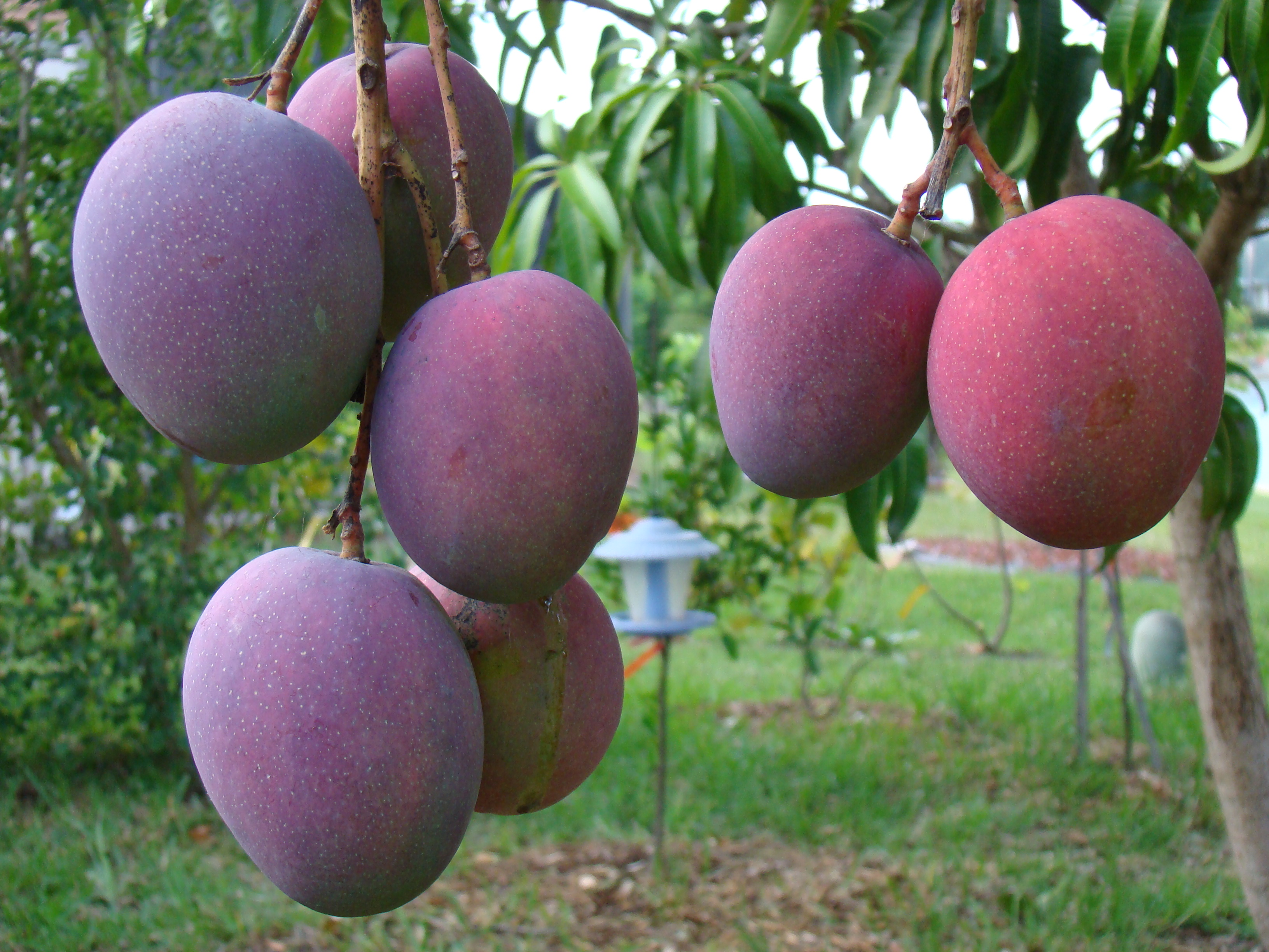 Photo of Tommy Atkins mangoes on a tree in the Ghosh Grove in Rockledge, Florida.